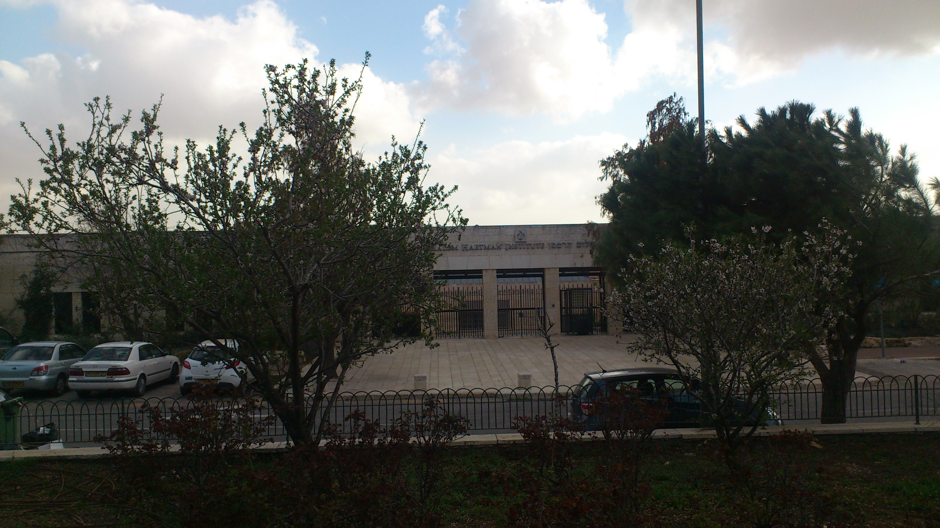 Shalom Hartman Institute